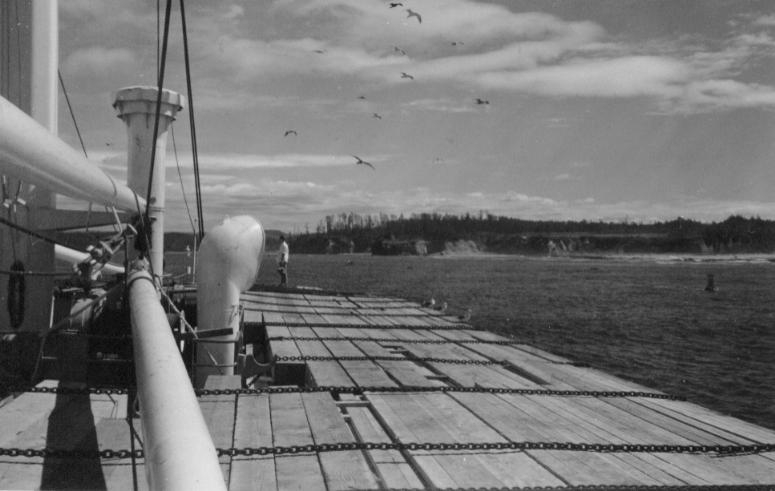 Motor ship Belgrano by the shipping company RAO/Hamburg Süd - lumber of North American West Coast to Australia